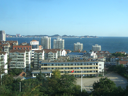 City view of Yantai (China, Shandong province)